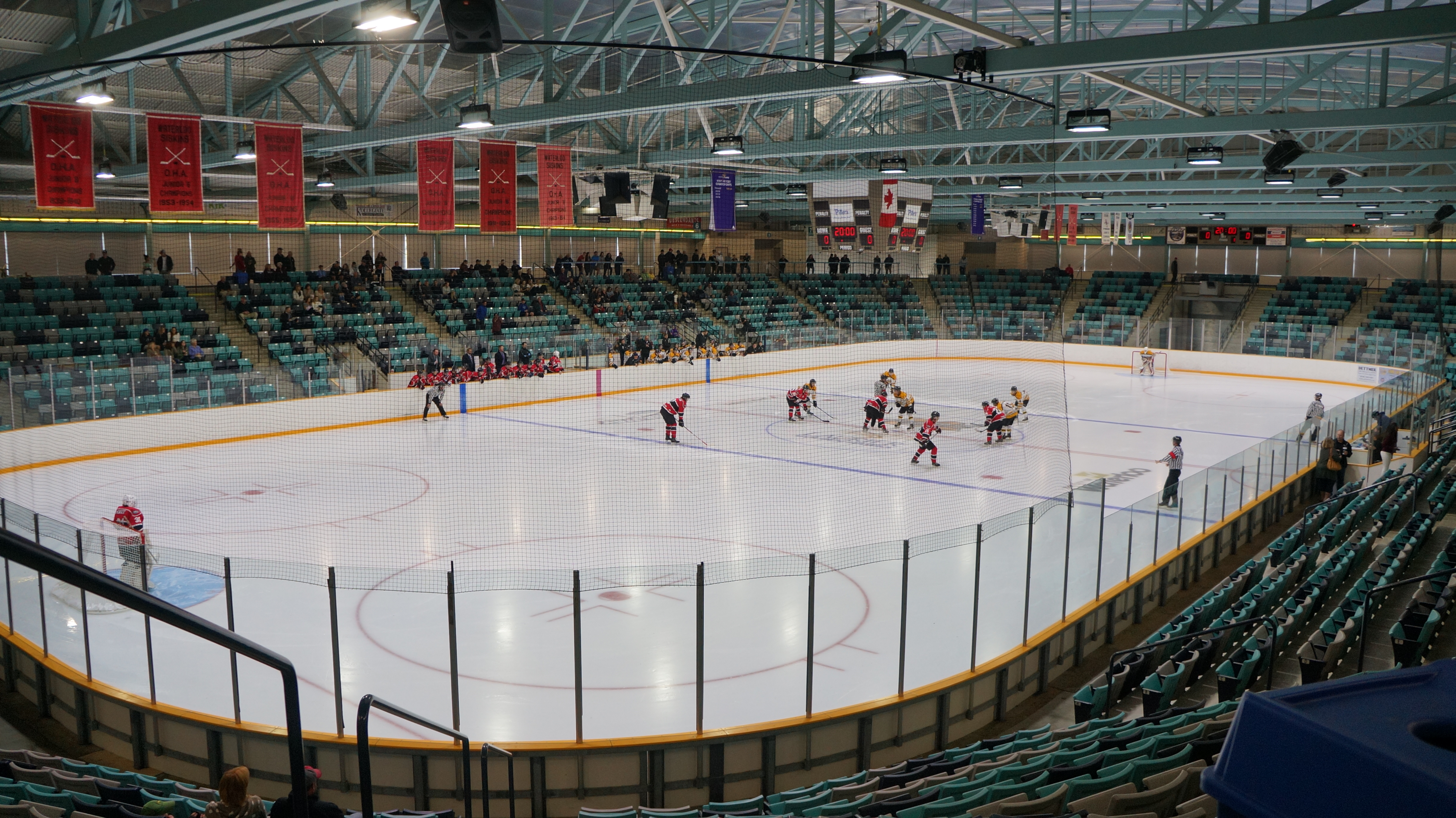 Waterloo Memorial Recreation Complex. Waterloo Siskins hosting the Listowel Cyclones